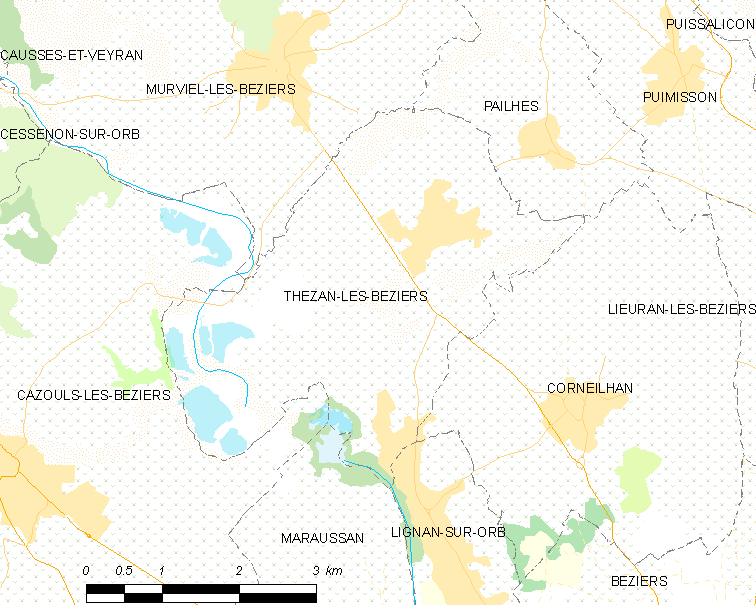 Map commune FR insee code 34310.png - Thézan-lès-Béziers